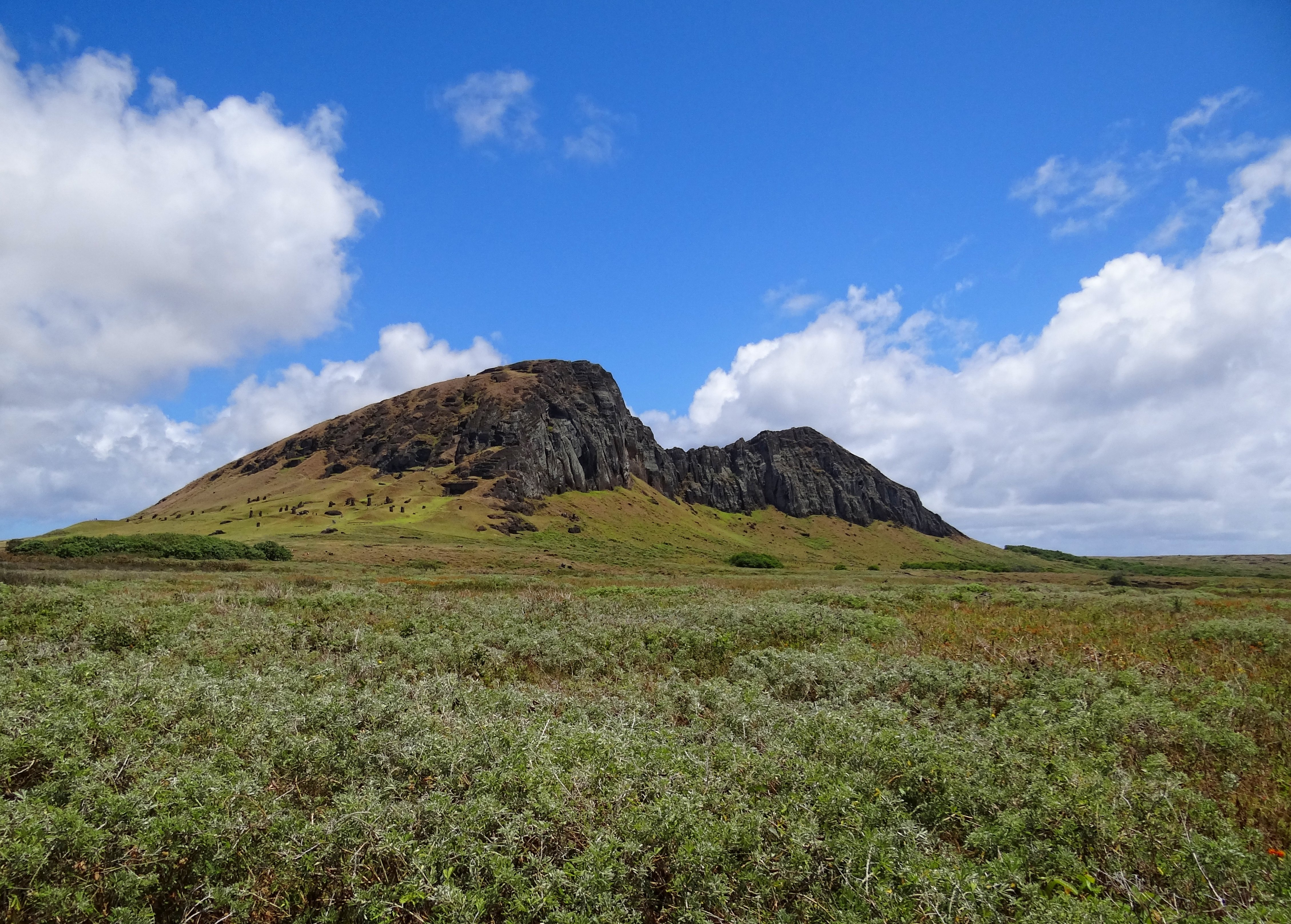 Rano Raraku seen from the south. Almost all the statues on Easter Island (95 %) were carved out of this crater wall, and then somehow transported many kilometres to various locations all over the island. No one knows exactly how they did it. Most of the dots in the hillside there are moai that for some reason either weren't completed or just not moved from here.